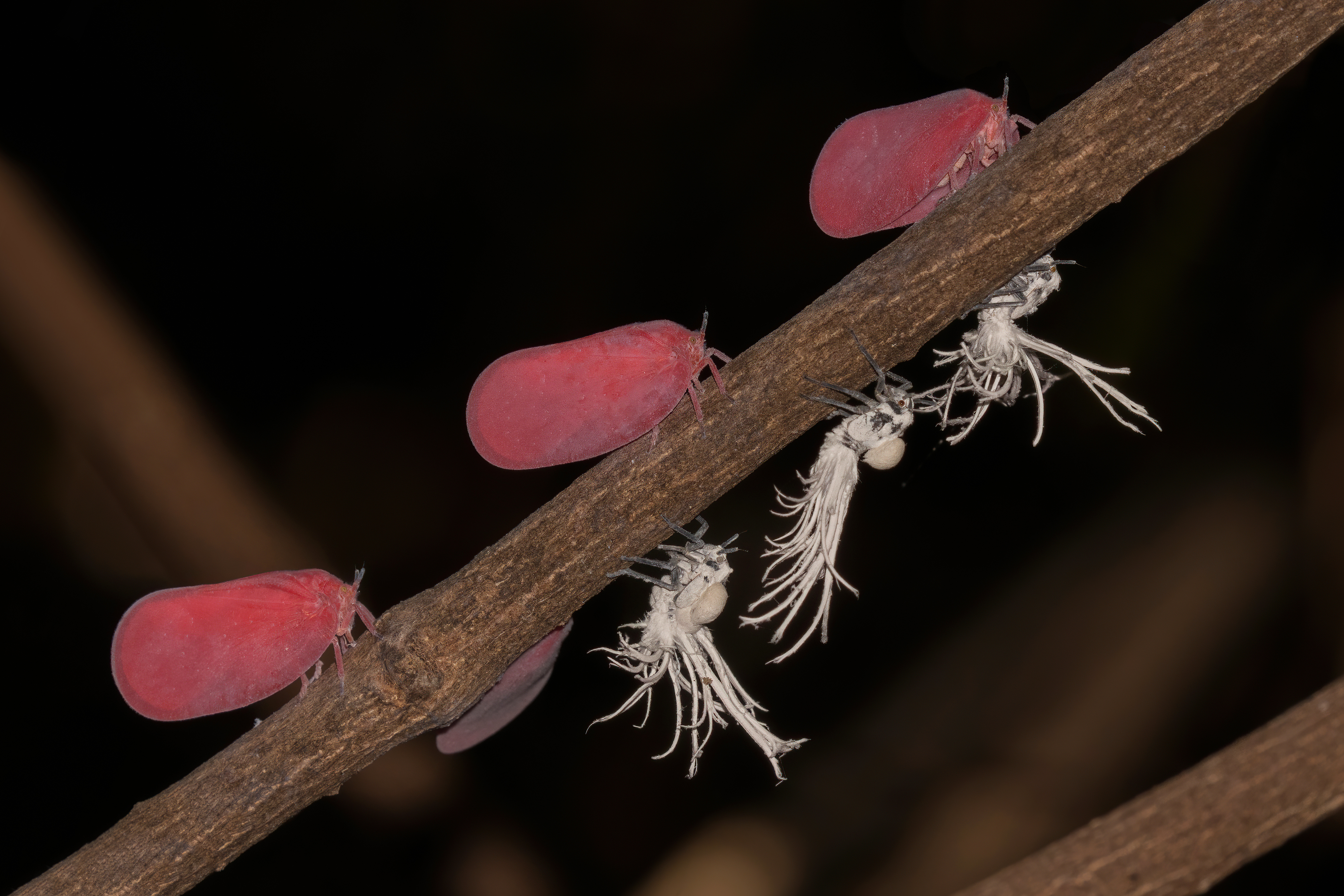 Flatid leaf bugs and nymphs (Phromnia rosea), Ankarana Reserve, Madagascar